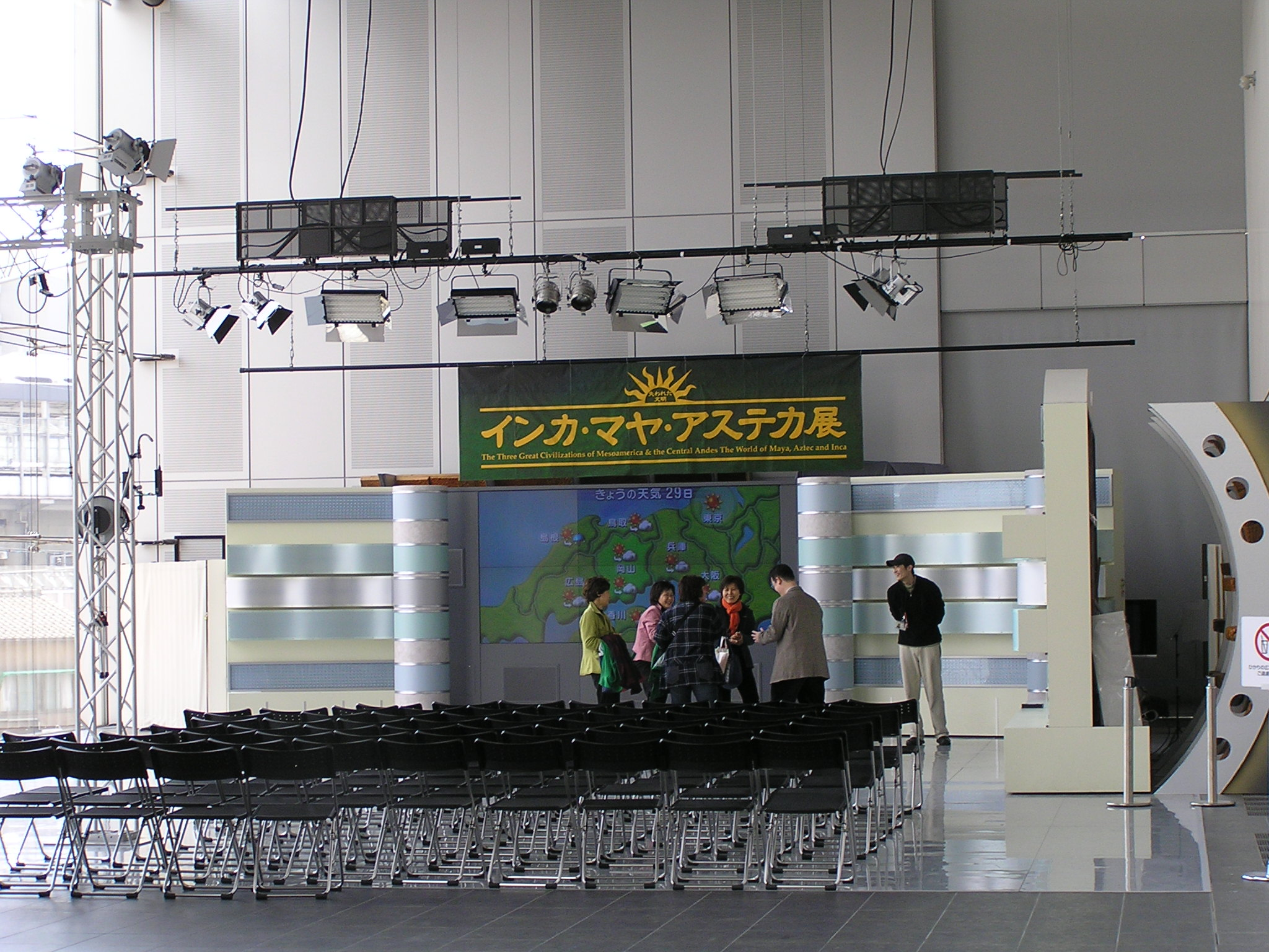 Studio of Okayama NHK opening to the public